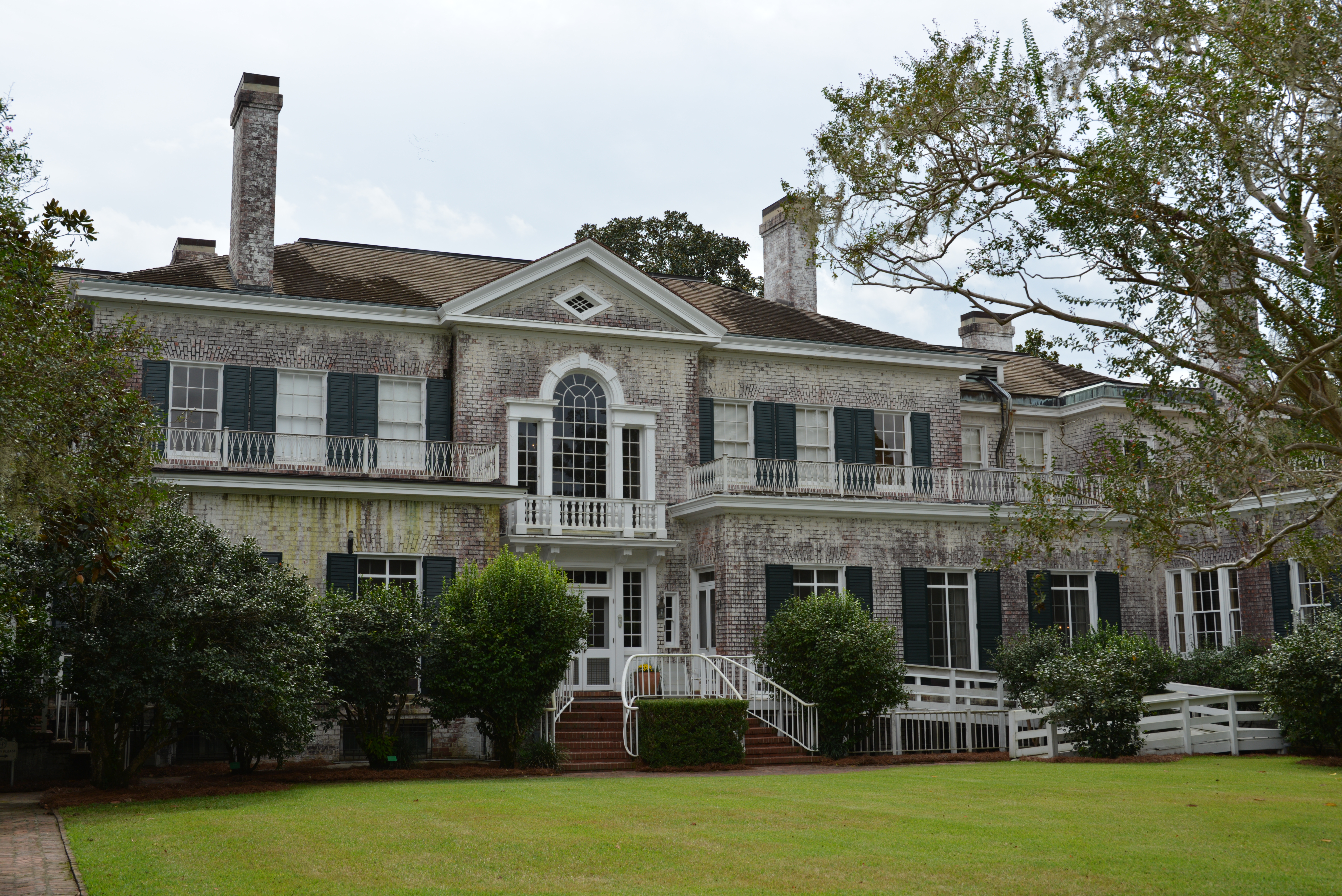 Pebble Hill Plantation, Thomas County, Georgia, US